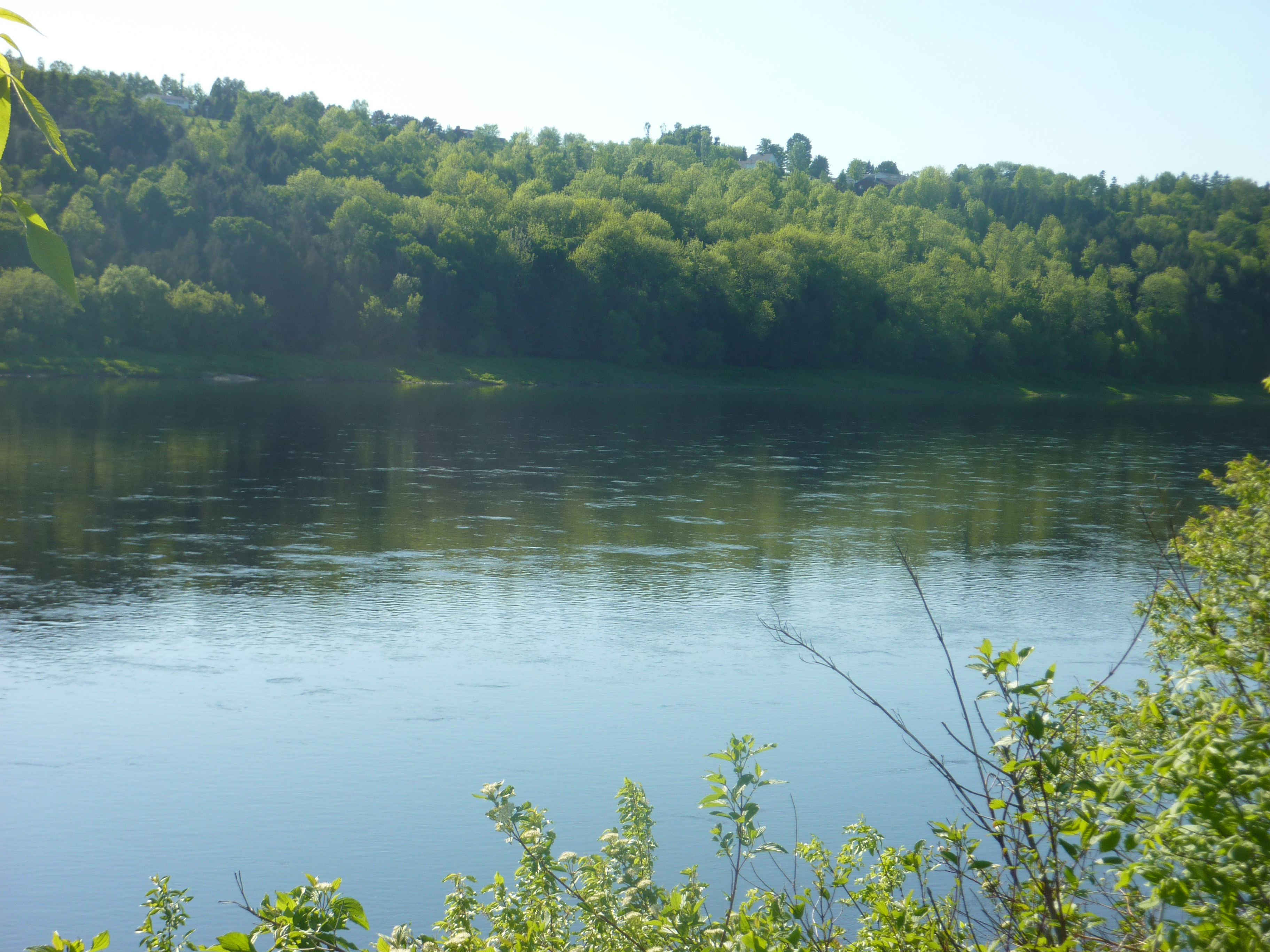 Saint John River at Florenceville-Bristol, New Brunswick